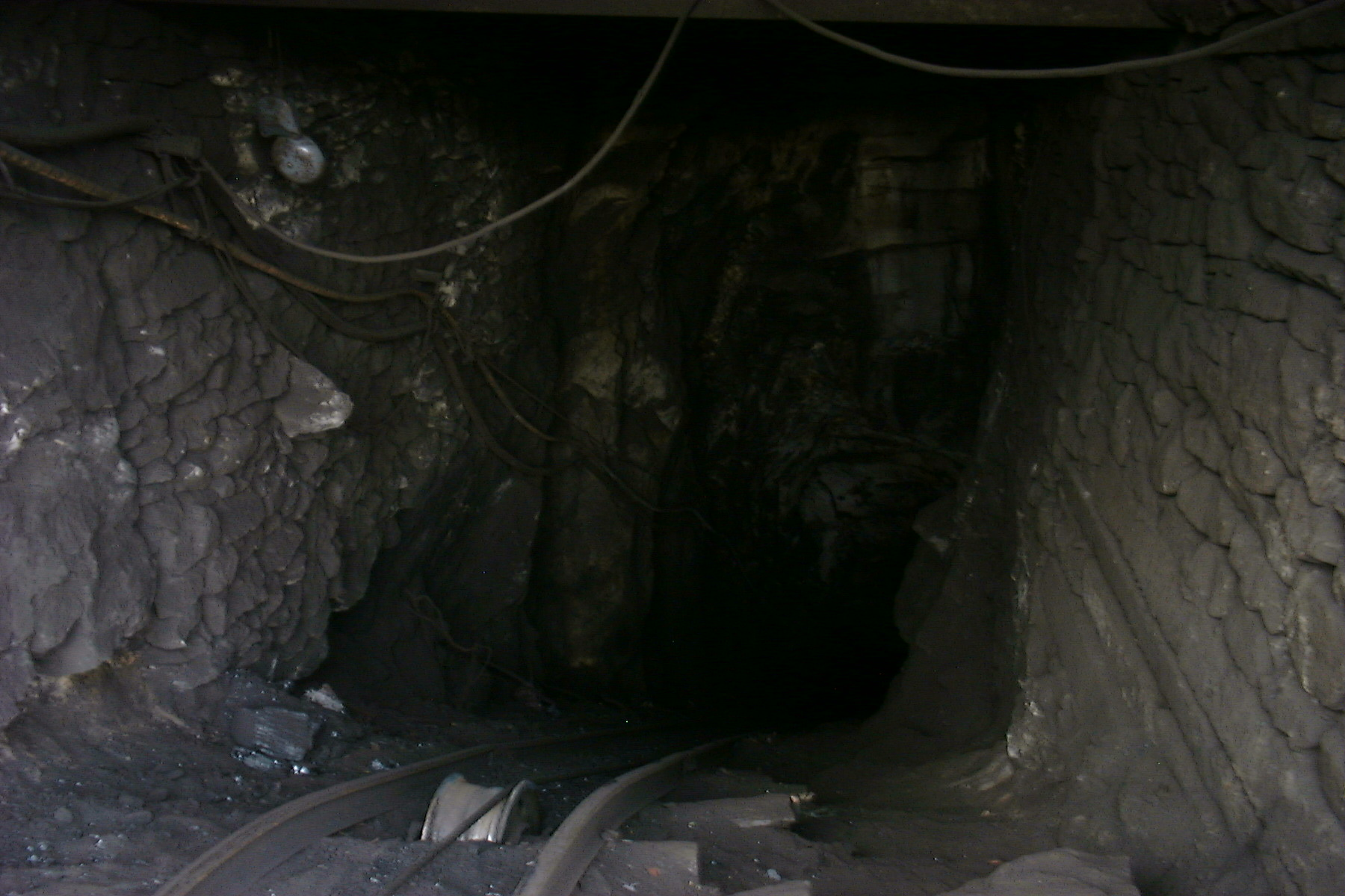 The mine exit of A mining factory in Datong, Shanxi, China